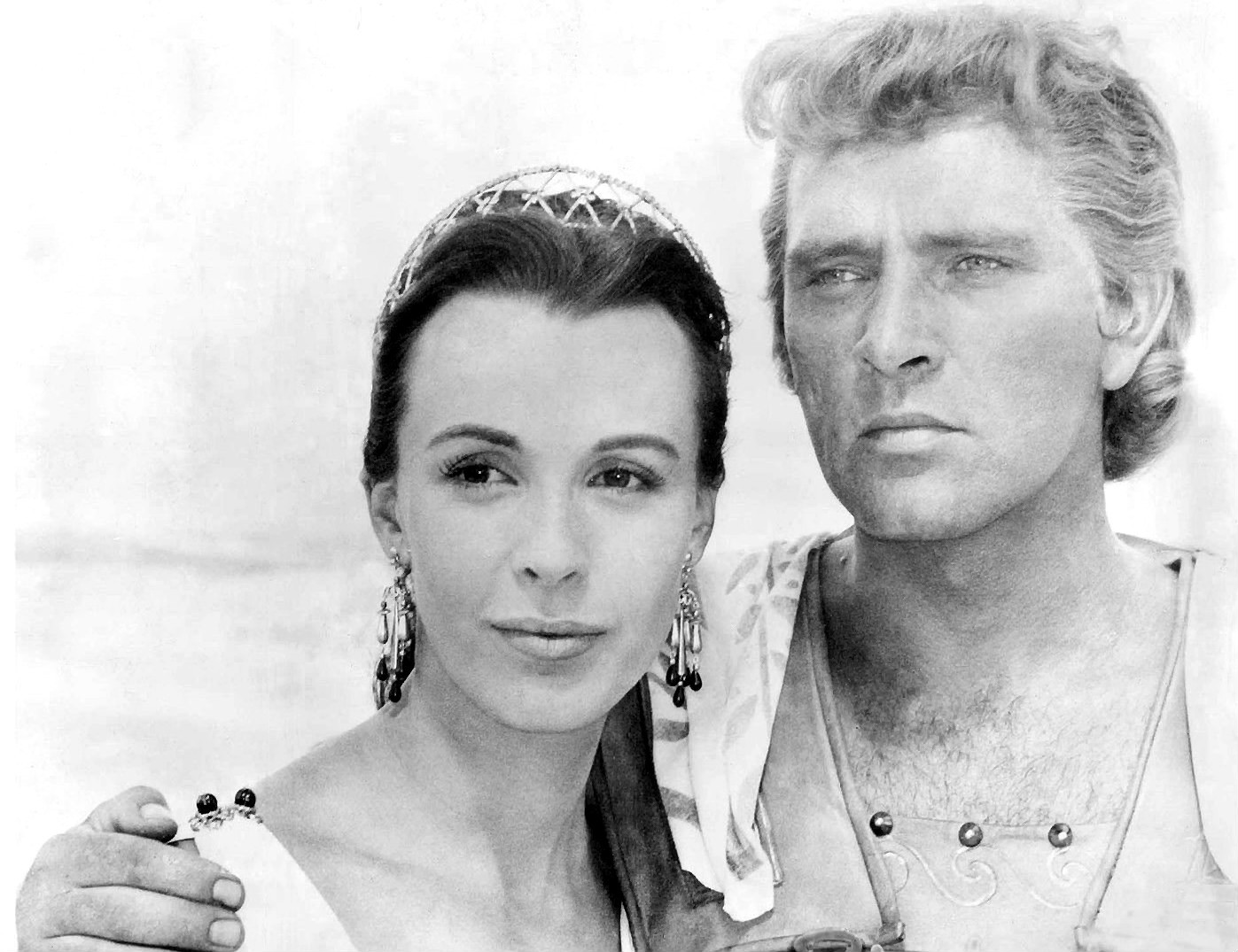 Photo of Claire Bloom and Richard Burton from a March 1956 issue of Screenland Plus TV Land. Note that the uploaded photo is larger and of better quality than the magazine photo. A search for renewal was done at using the title "Screenland". There were no renewals for the title; the 3 listings for it are newer original registrations and they are not for publications. There's no evidence of renewal for the magazine.